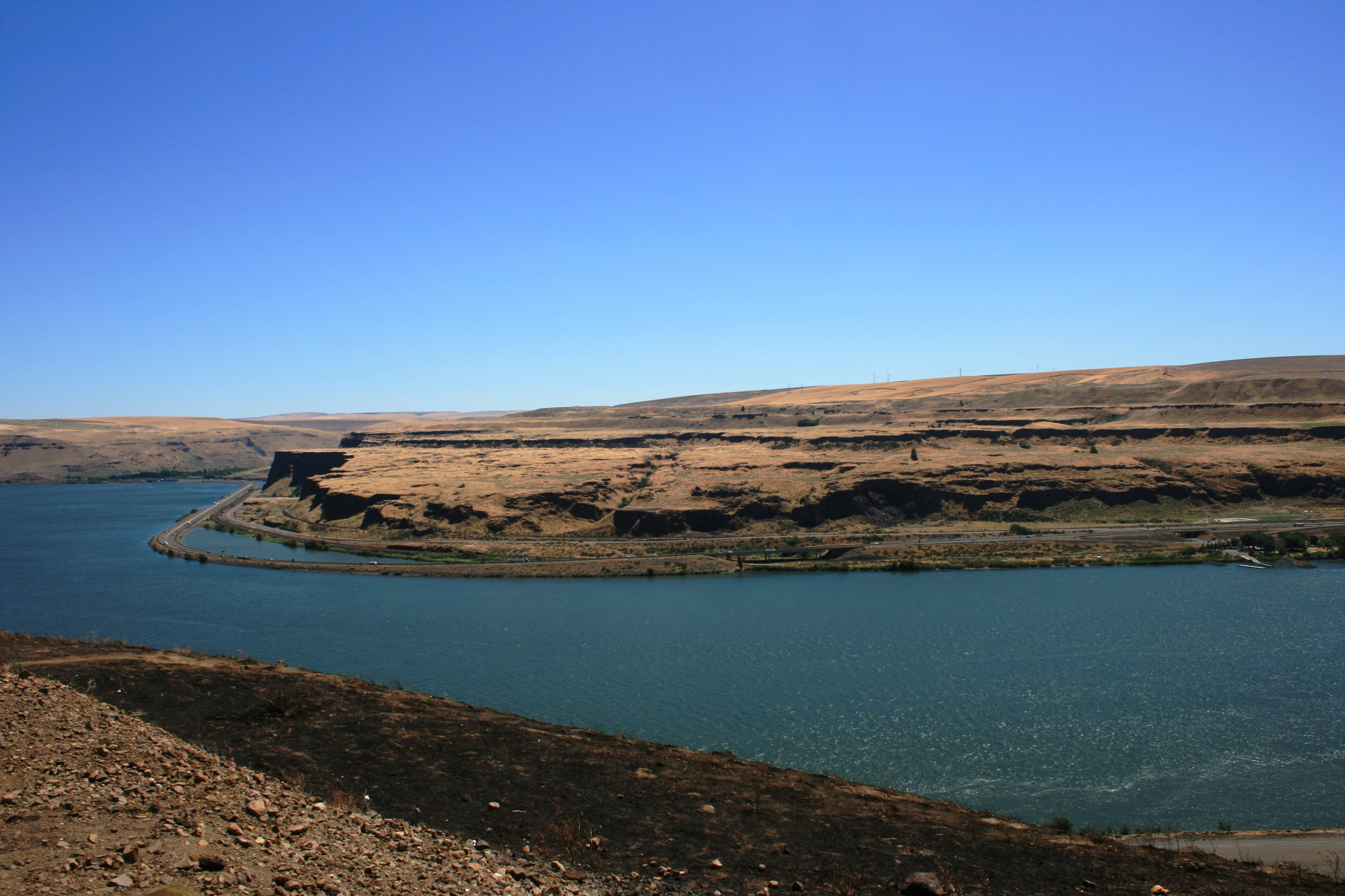 Looking across from Wishram toward Deschutes